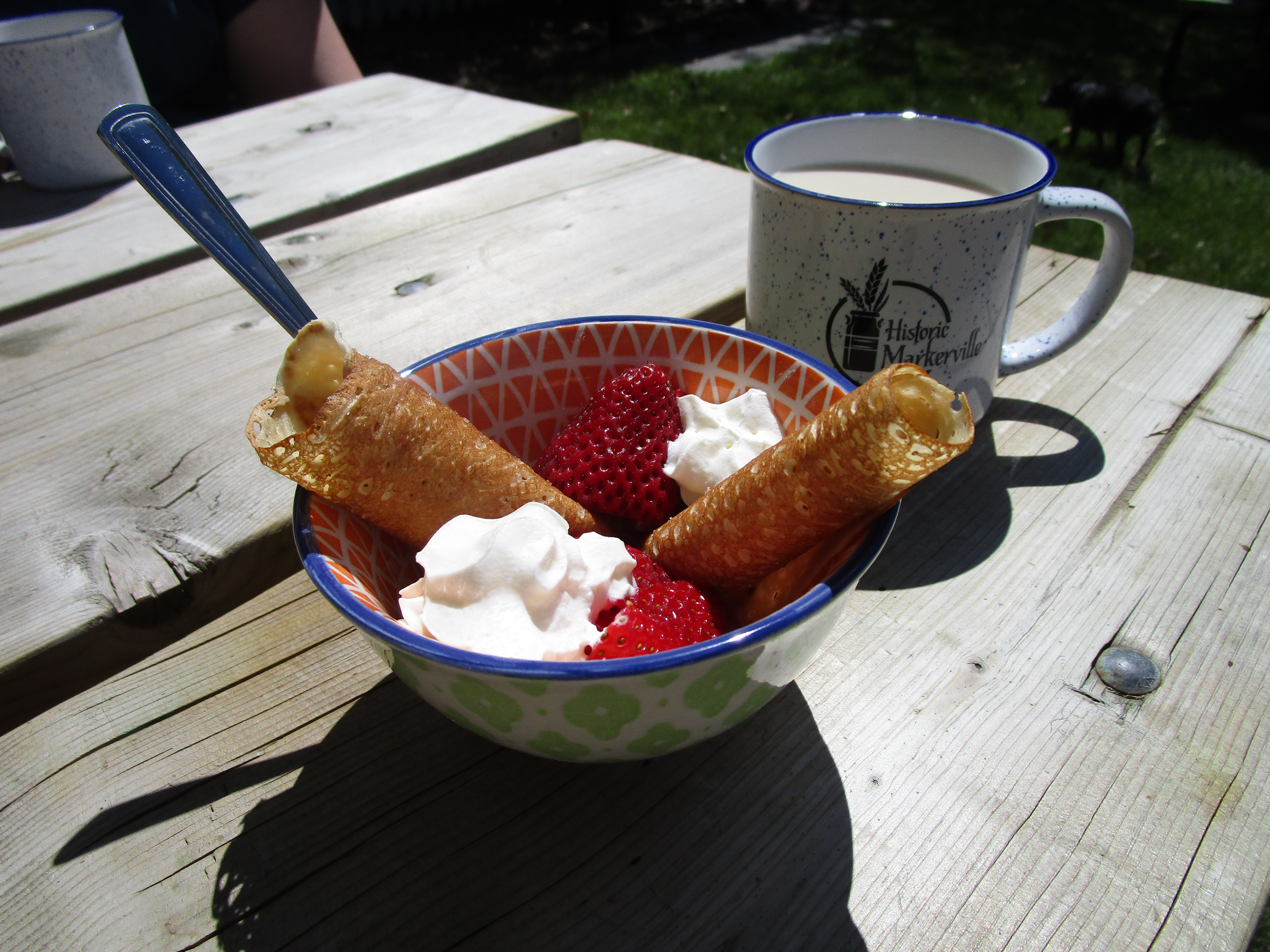 Icelandic pönnukökur at the Historic Markerville Creamery Museum in Markerville, AB.